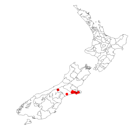 Carmichaelia appressa occurrence data from Australasian Virtual Herbarium downloaded 2 December 2019 using